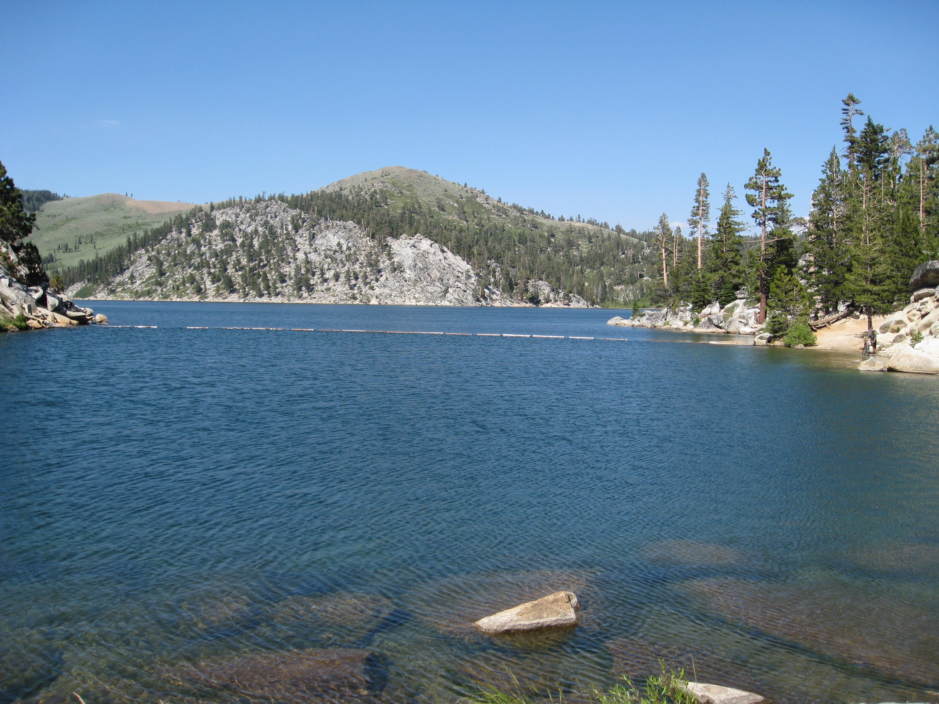 Marlette Lake near Carson City, Nevada. The lake formerly served as a water supply for the silver mines in Virginia City, Nevada.